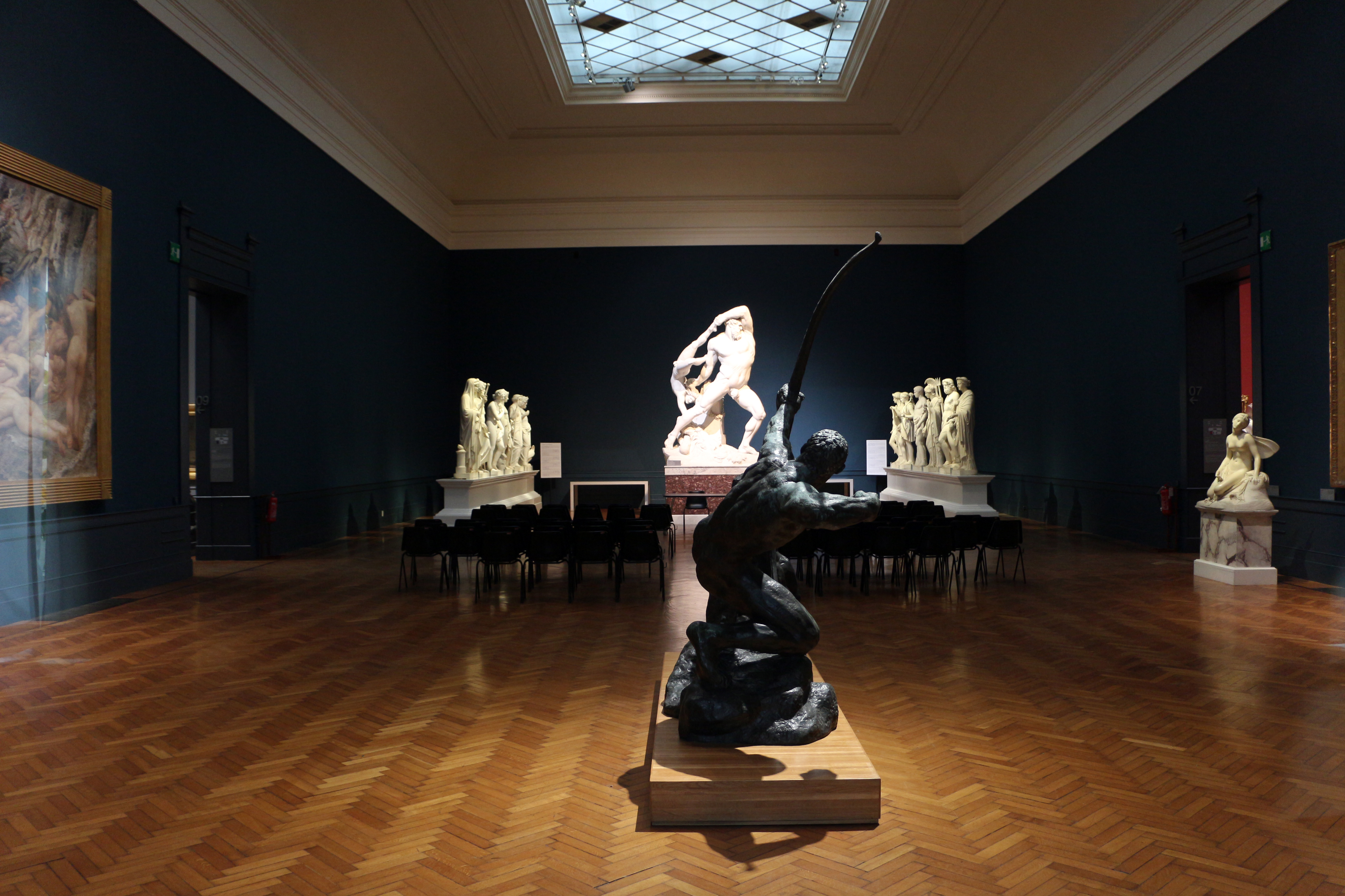 Galleria nazionale d'arte moderna (Rome)